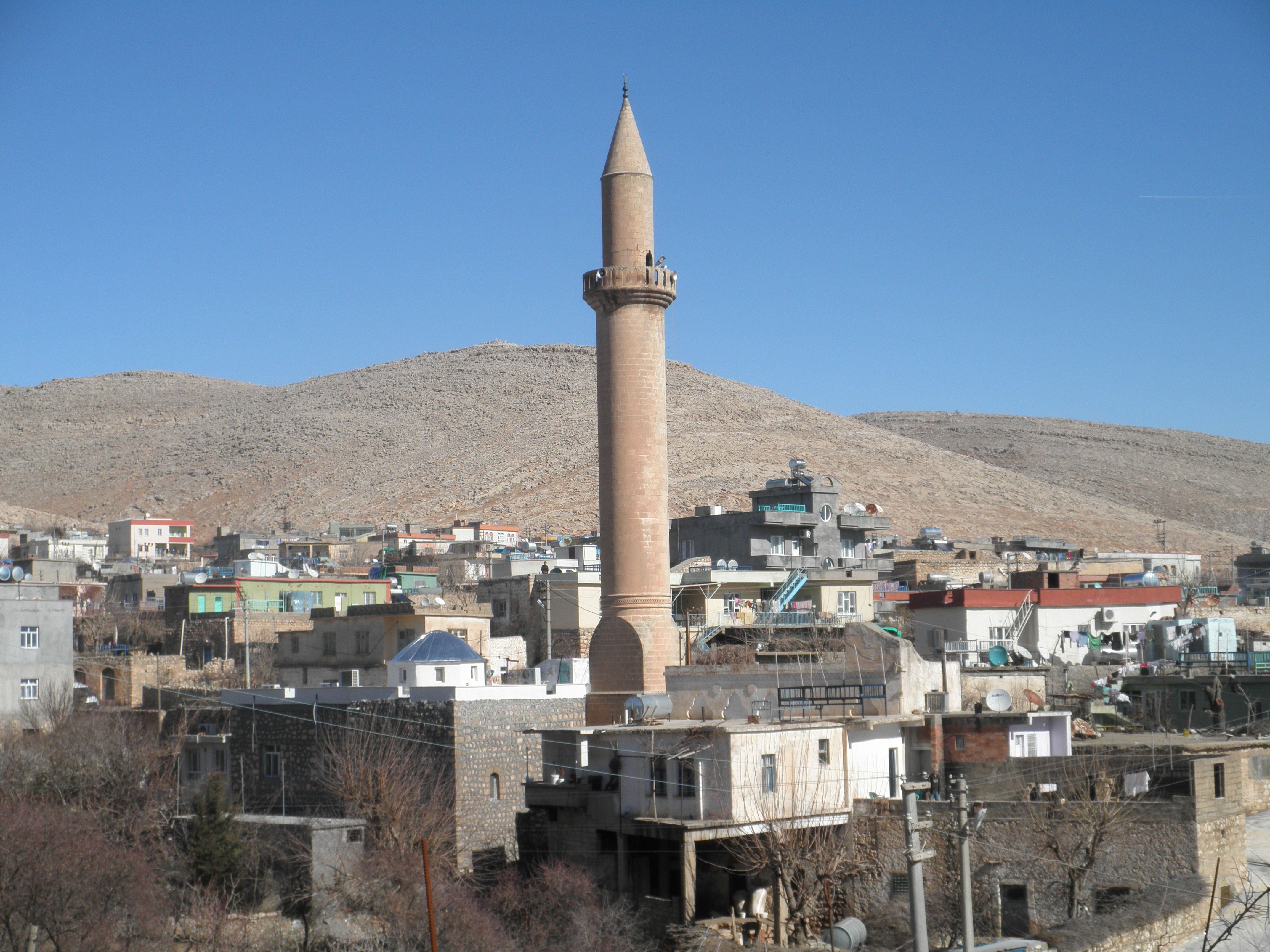 Kurdish town, Kerboran.